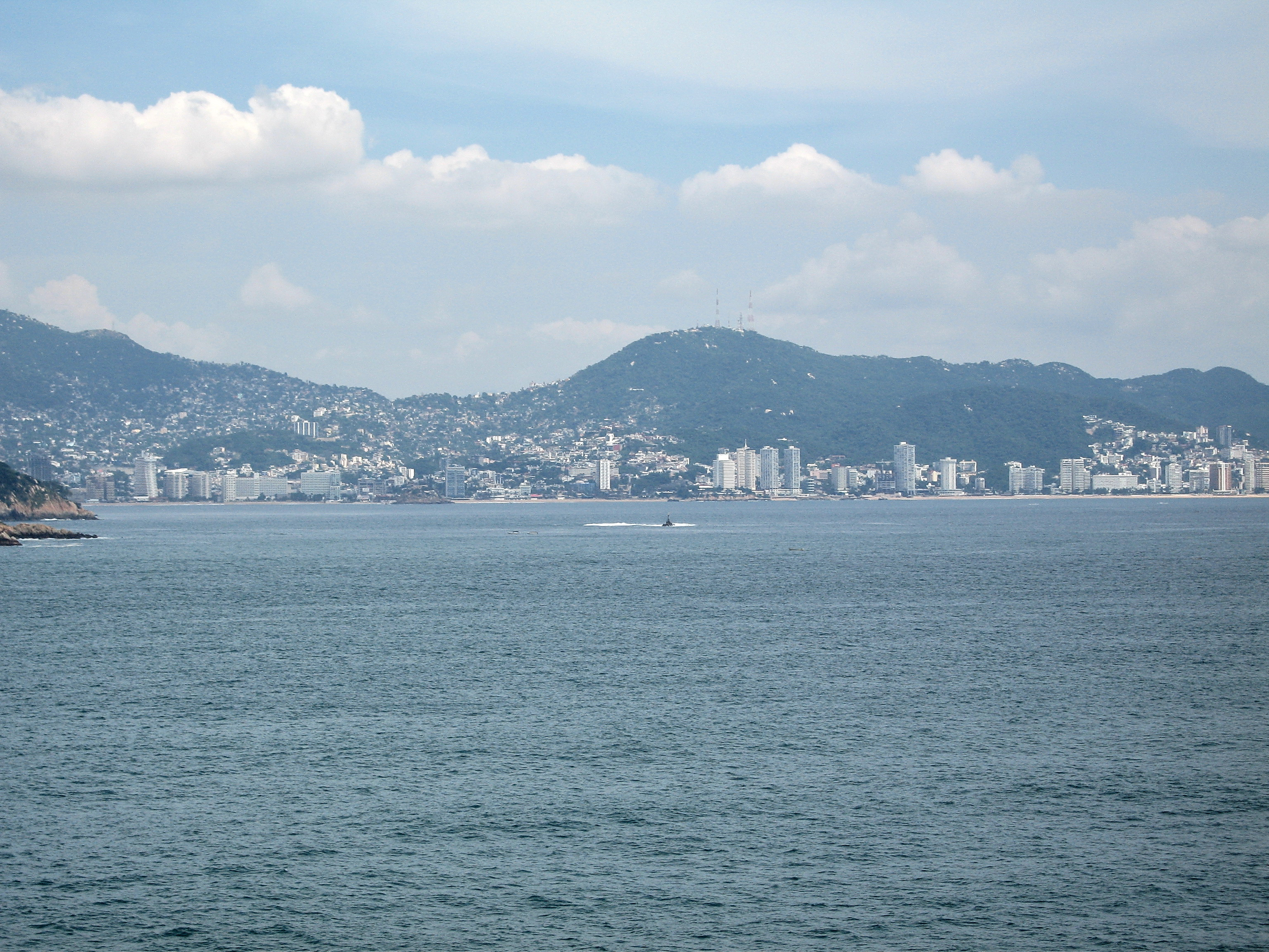 The harbor of Acapulco, 2006.